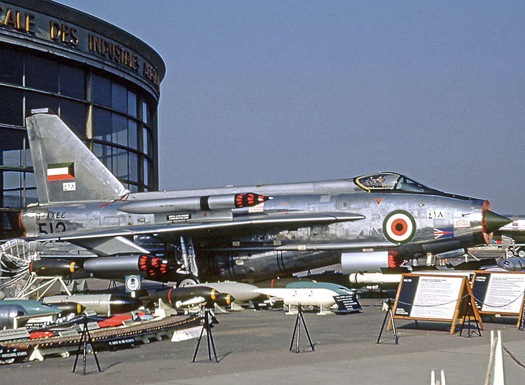 English Electric Lightning F.53 418 of the Kuwait Air Force at Paris Le Bourget in 1969